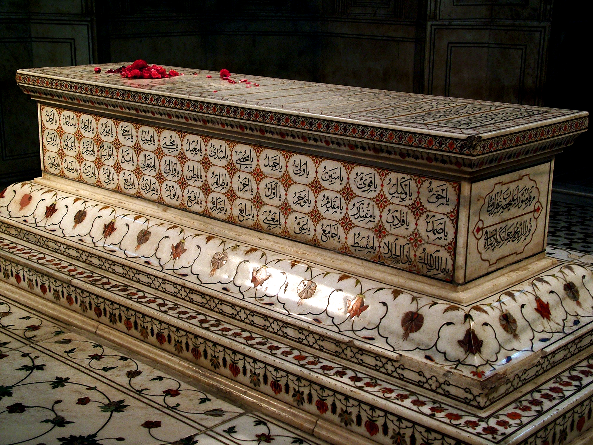 Tomb of Mughal Emperor Jehangir in Shahdara, Lahore.